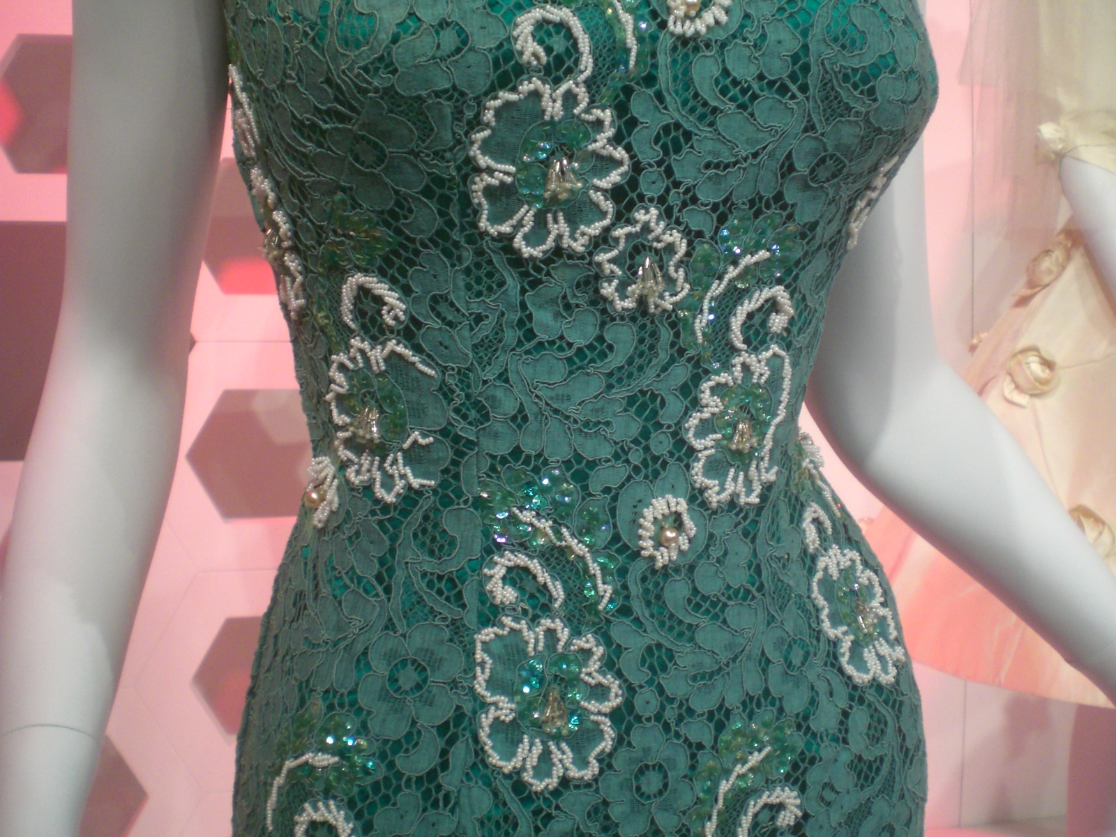 HK Film Archive showcases legendary superstar Lin Dai = 林黛, Lin Dai 在香港電影資料館 - 旗袍